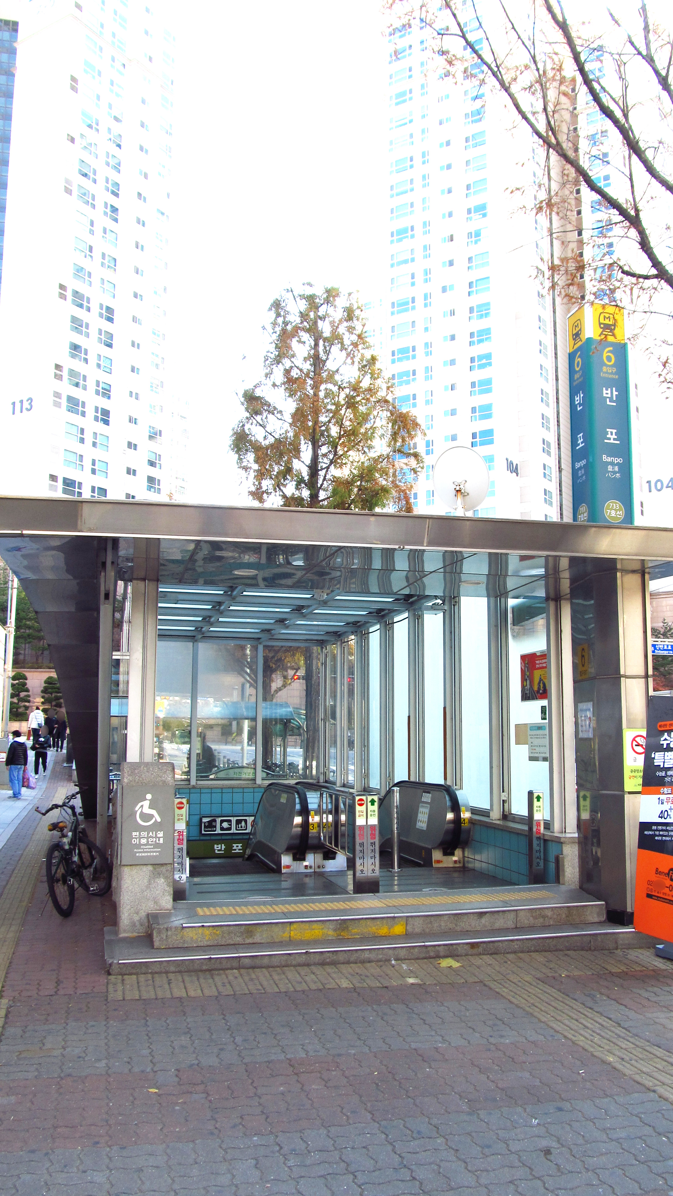 The no.6 entrance to Banpo Station on Seoul Subway Line 7 in Seocho-gu, Seoul, Republic of Korea(South Korea)